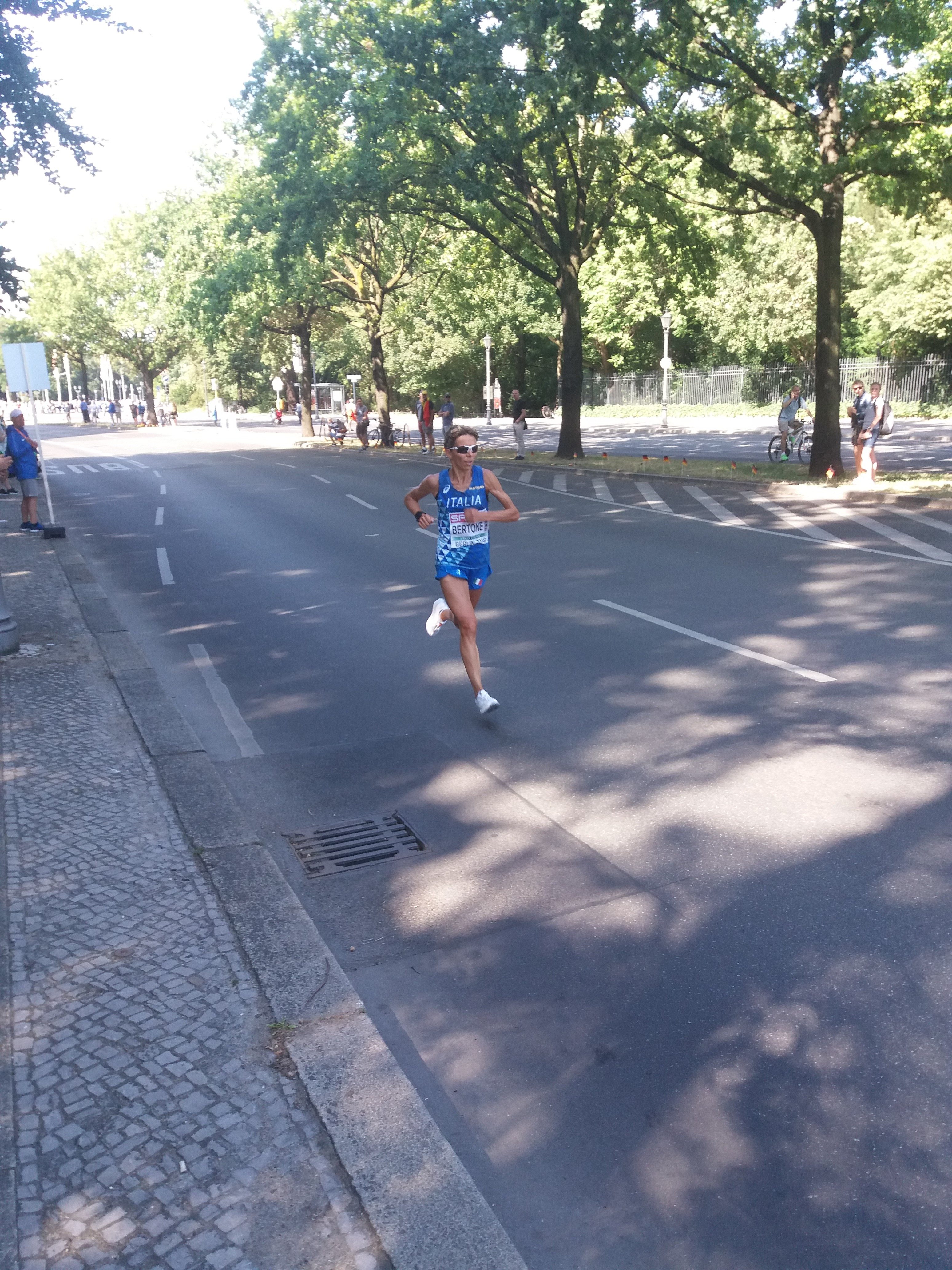 Marathon at the 2018 European Athletics Championships